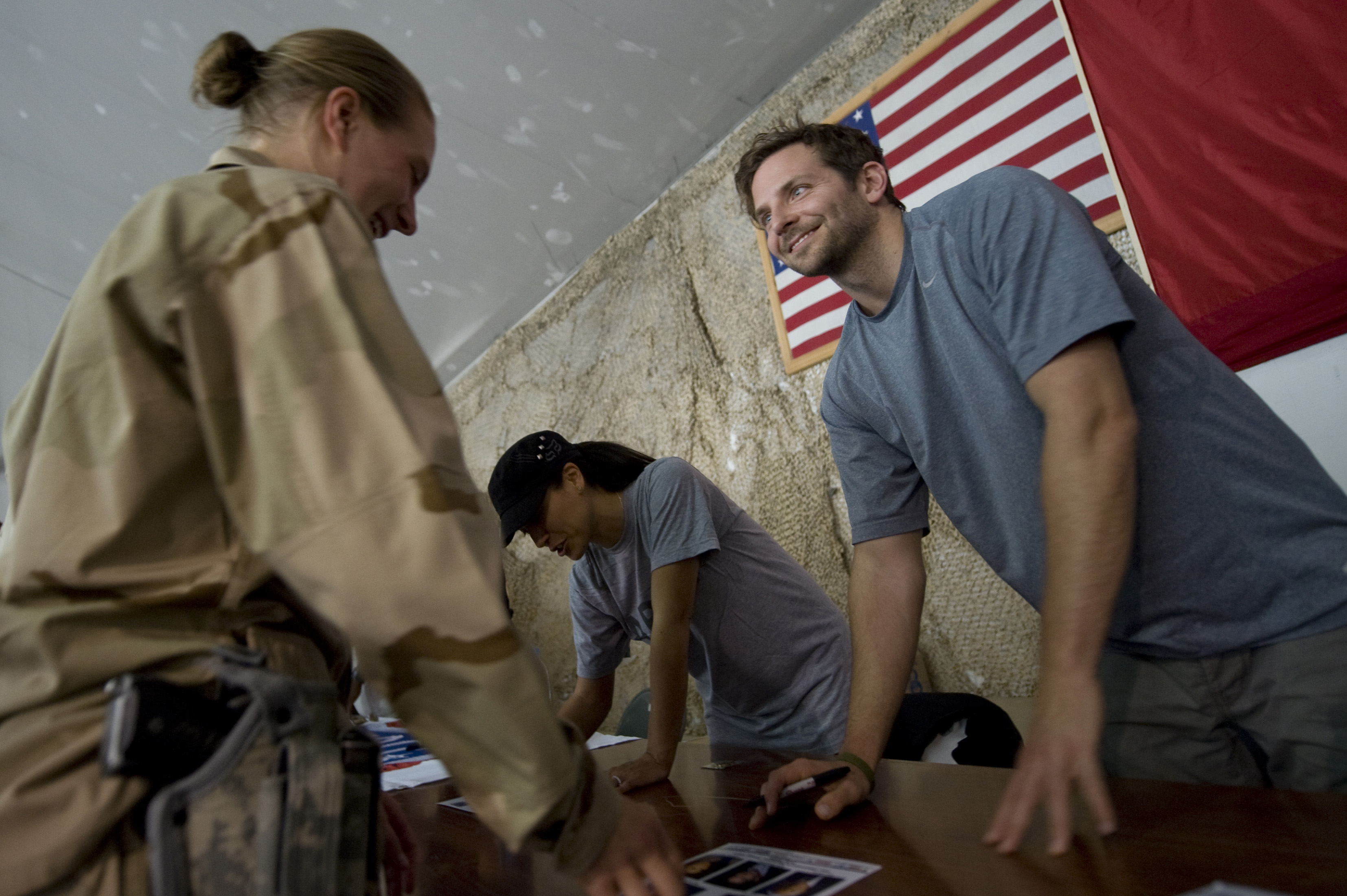 Actor Bradley Cooper (right) and model Leeann Tweeden (2nd from right) sign autographs for service members at Bagram Air Base, Afghanistan, on July 14, 2009. Chairman of the Joint Chiefs of Staff Adm. Mike Mullen, U.S. Navy, is accompanying a USO tour featuring Cooper, Tweeden, Hall of Fame NFL coach Don Shula, NFL running back Warrick Dunn, and actor D.B. Sweeney on a visit to the Central Command area of responsibility.